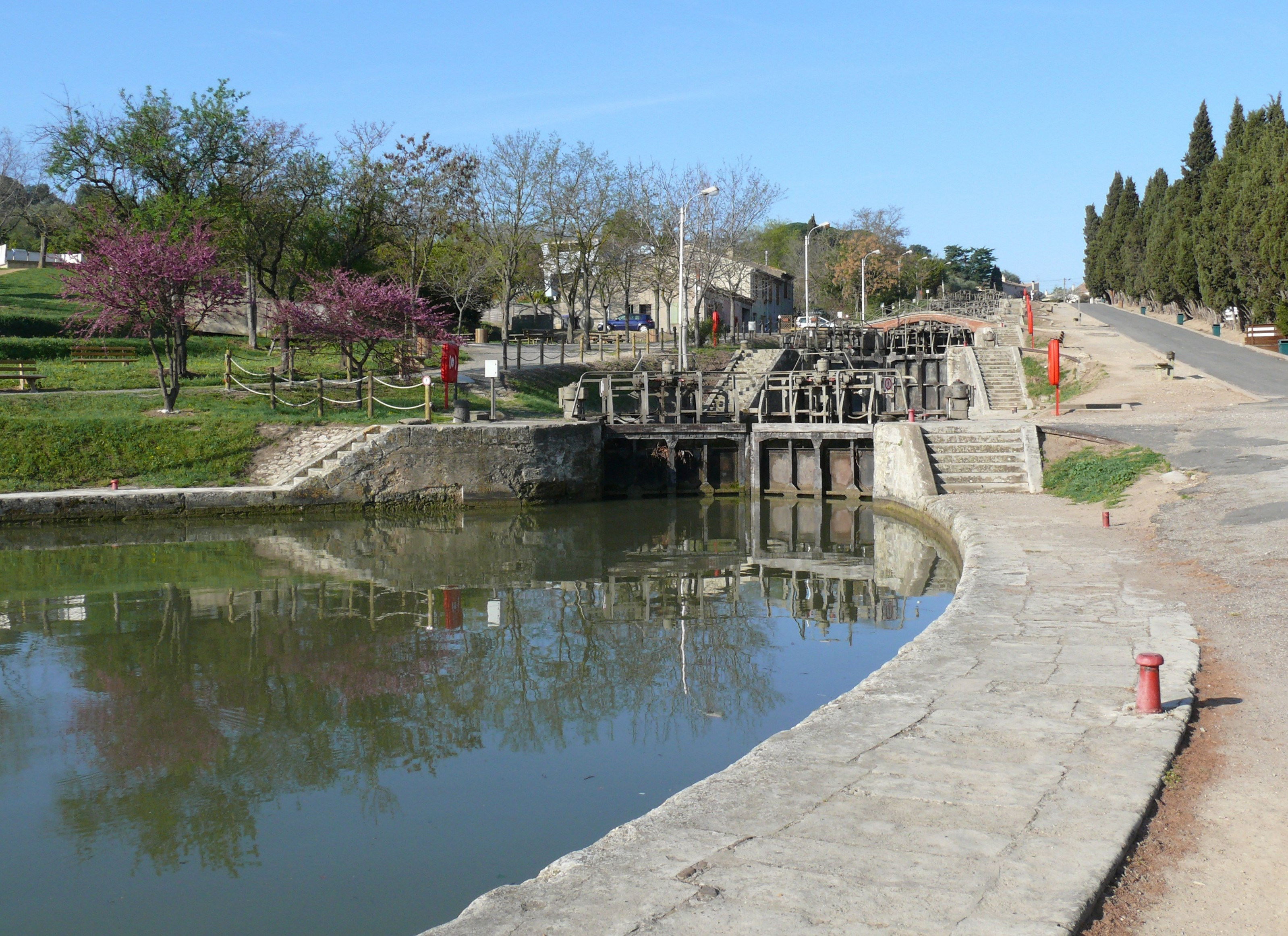 Fonserannes Lock (French: écluse de Fonserannes, les neuf écluses) is a staircase lock on the Canal du Midi near Béziers. It consists of eight ovoid lock chambers (characteristic of the Canal du Midi) and nine gates, which allow boats to be raised a height of 21.5 m, in a distance of 300 m.